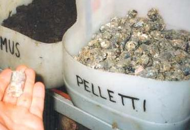 Pellets of refuse-derived fuel (RDF) in the Czech Republic.